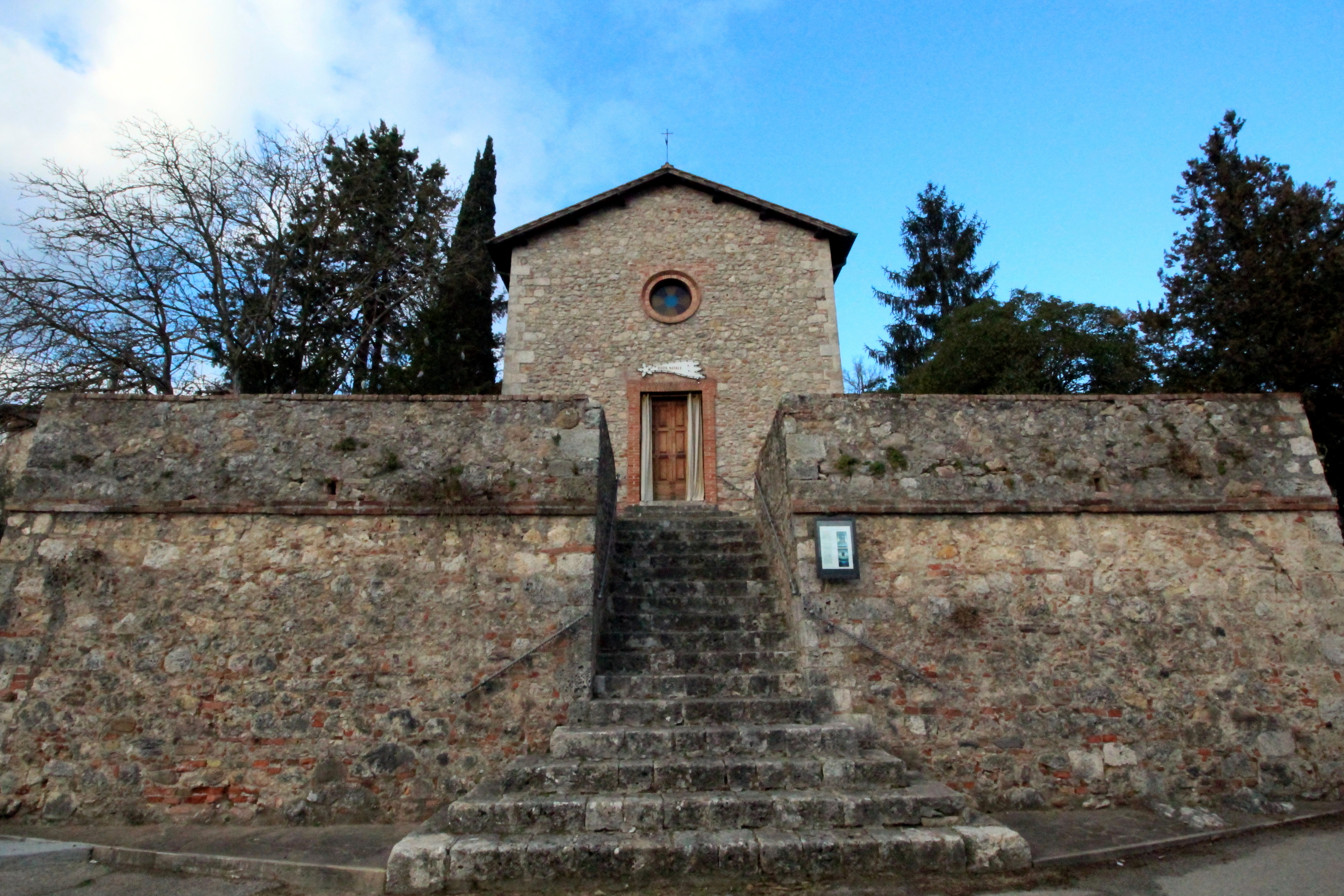 Facade of the San Michele Arcangelo Church in Brenna, hamlet of Sovicille, Montagnola Senese, Province of Siena, Tuscany, Italy